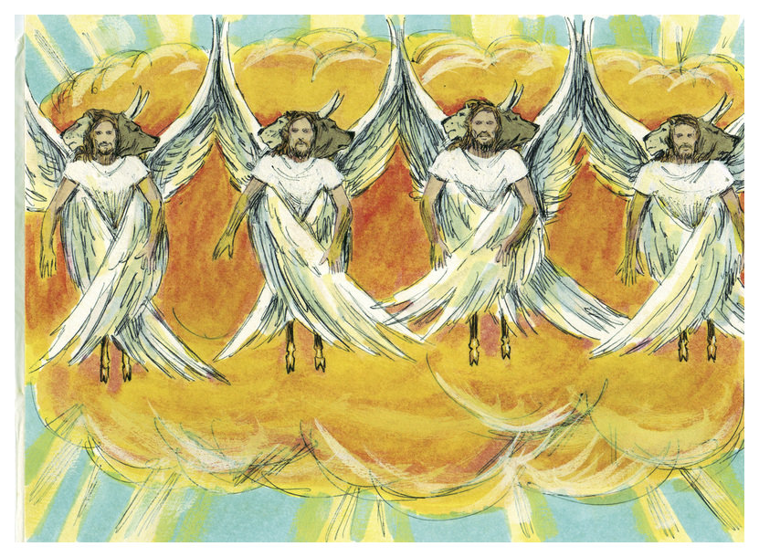 Biblical illustration of Book of Ezekiel Chapter 1